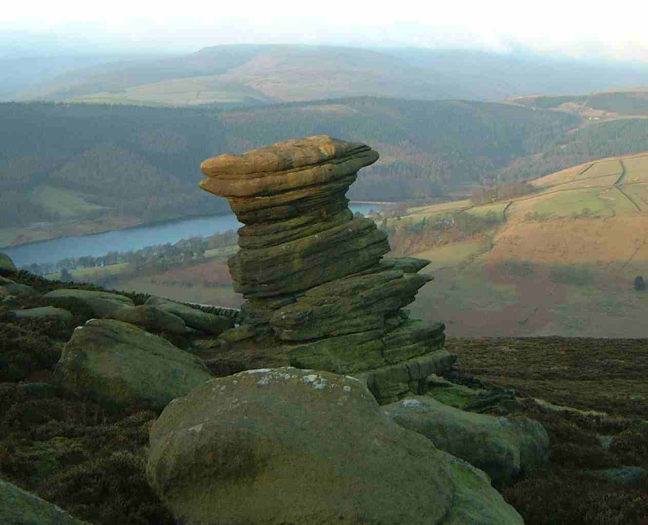 Personal photograph taken 21st January 2006 by Mick Knapton